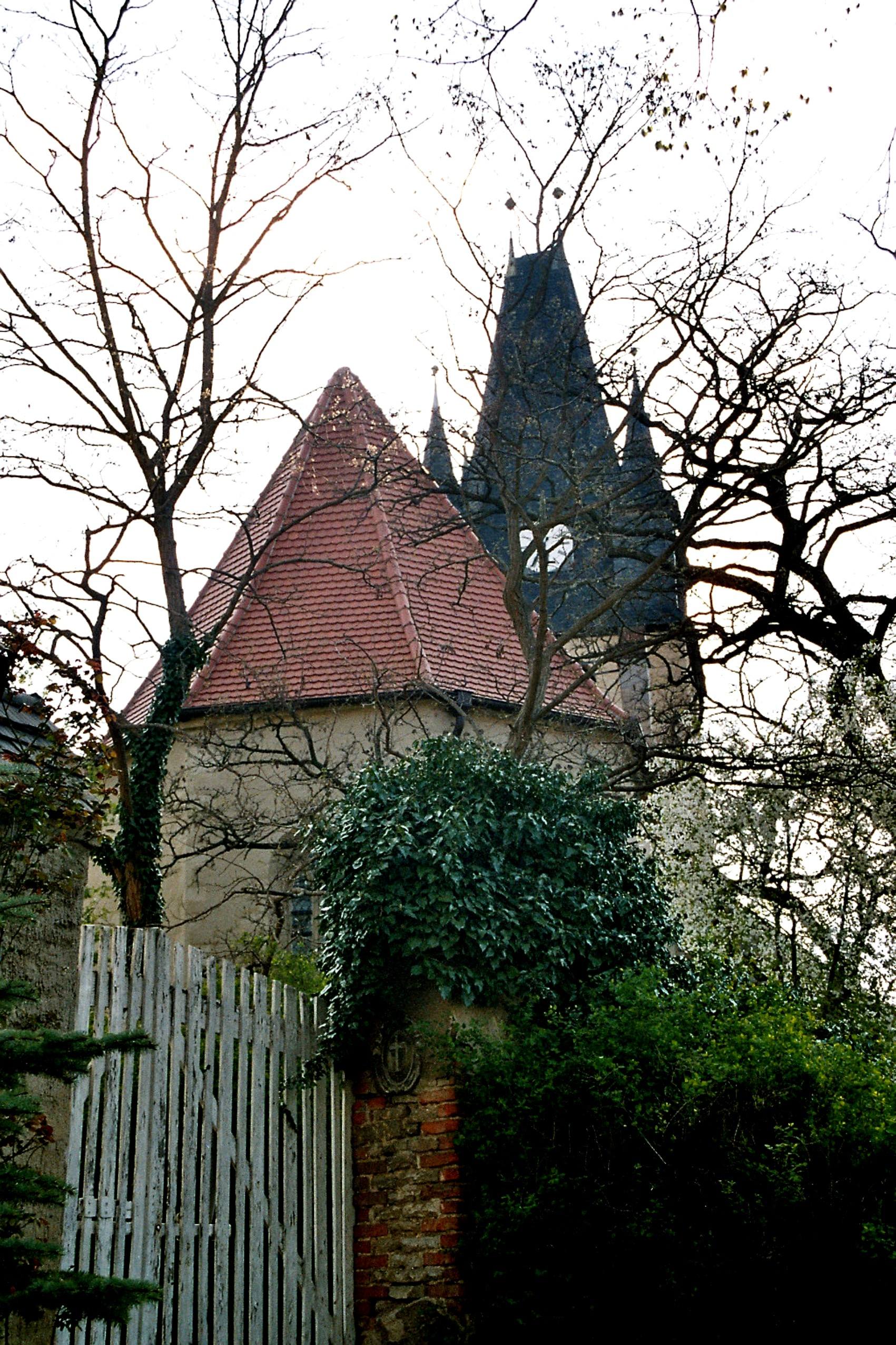 Brumby (Staßfurt), St. Peter´s Church This is a photograph of an architectural monument. 98517